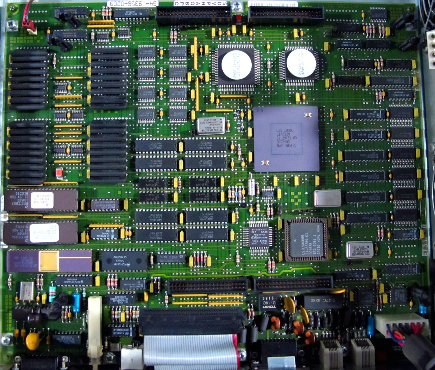 DEC MicroVAX 3100 Mainboard